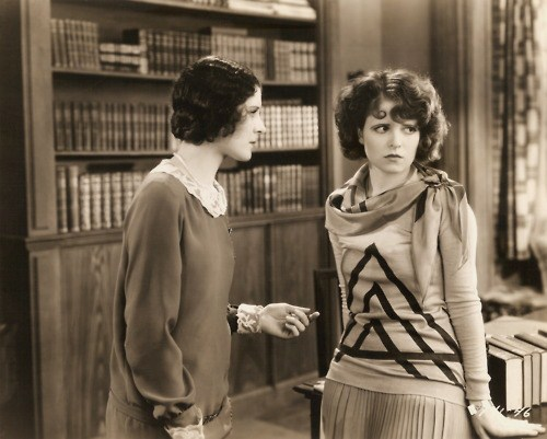 Marceline Day and Clara Bow in The Wild Party (1929) - cropped screenshot.